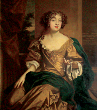 Portrait of Dorothy Grahme (died 1700), wife of James Grahme.